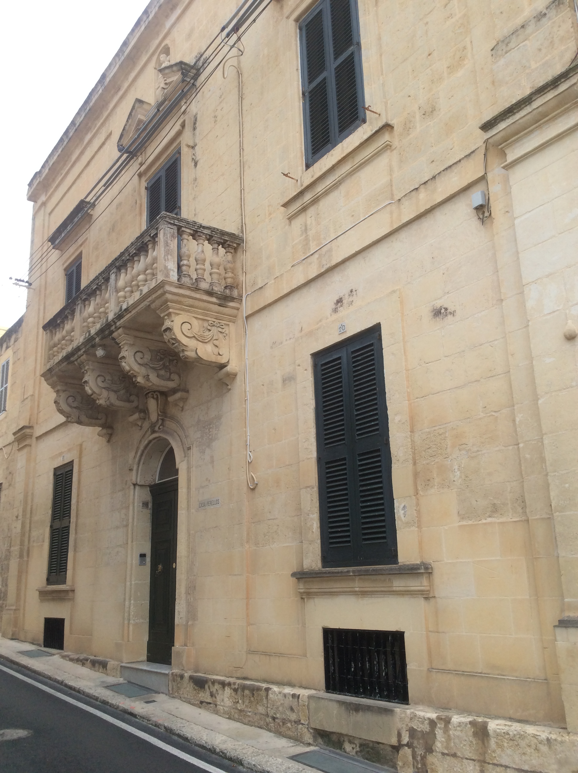 Casa Perellos, Zejtun, Malta